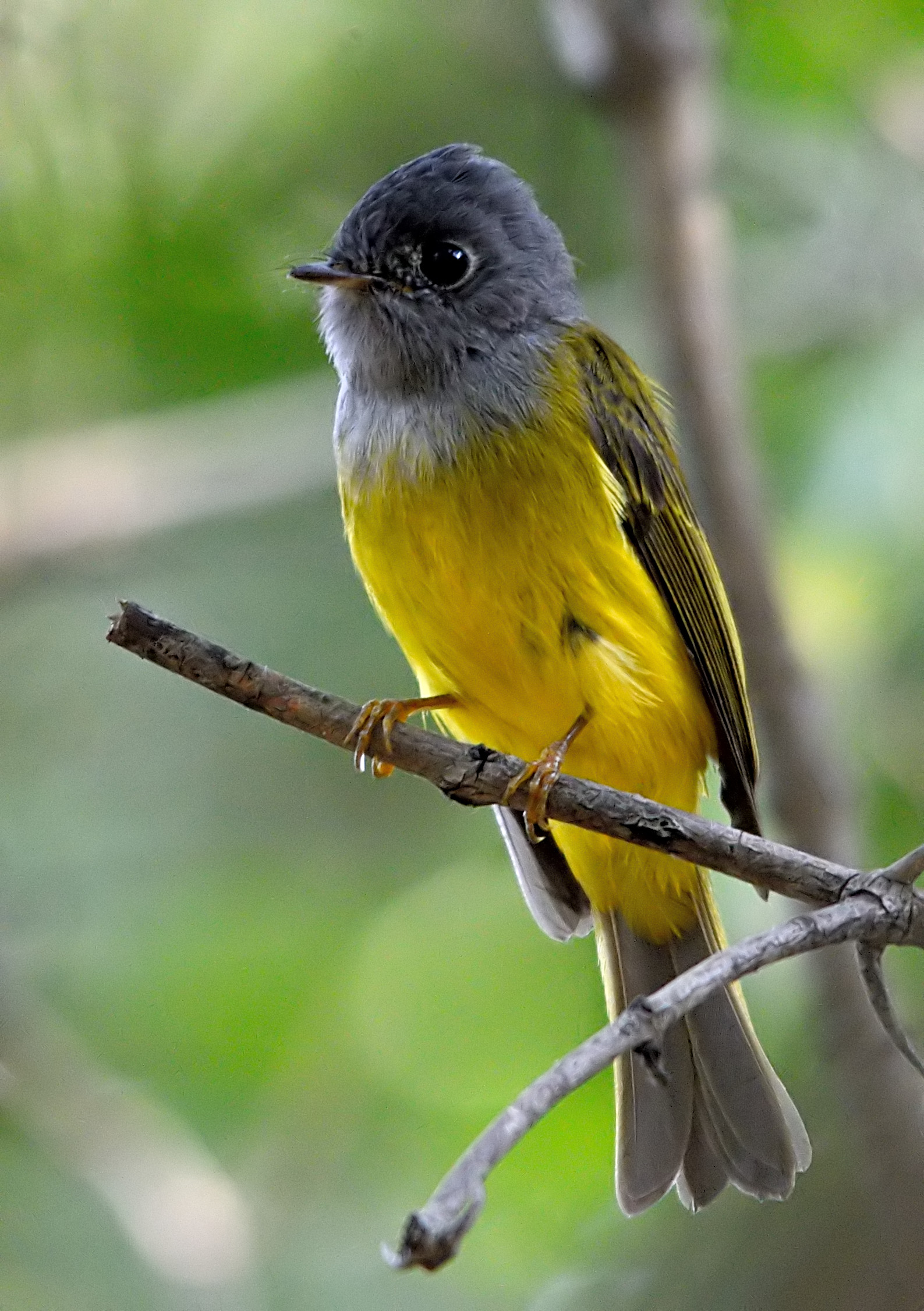 Grey headed Canary-Flycatcher (Culicicapa ceylonensis) nominate subspecies from Karnala bird sanctuary, India